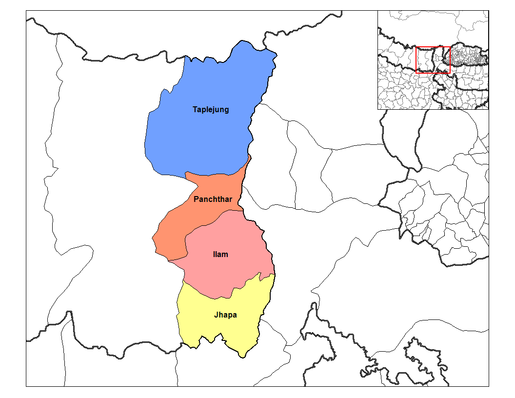 Map of the districts of Mechi Zone (wp-EN) in Nepal. Created by Rarelibra 19:32, 18 September 2006 (UTC) for public domain use, using MapInfo Professional v8.5 and various mapping resources.